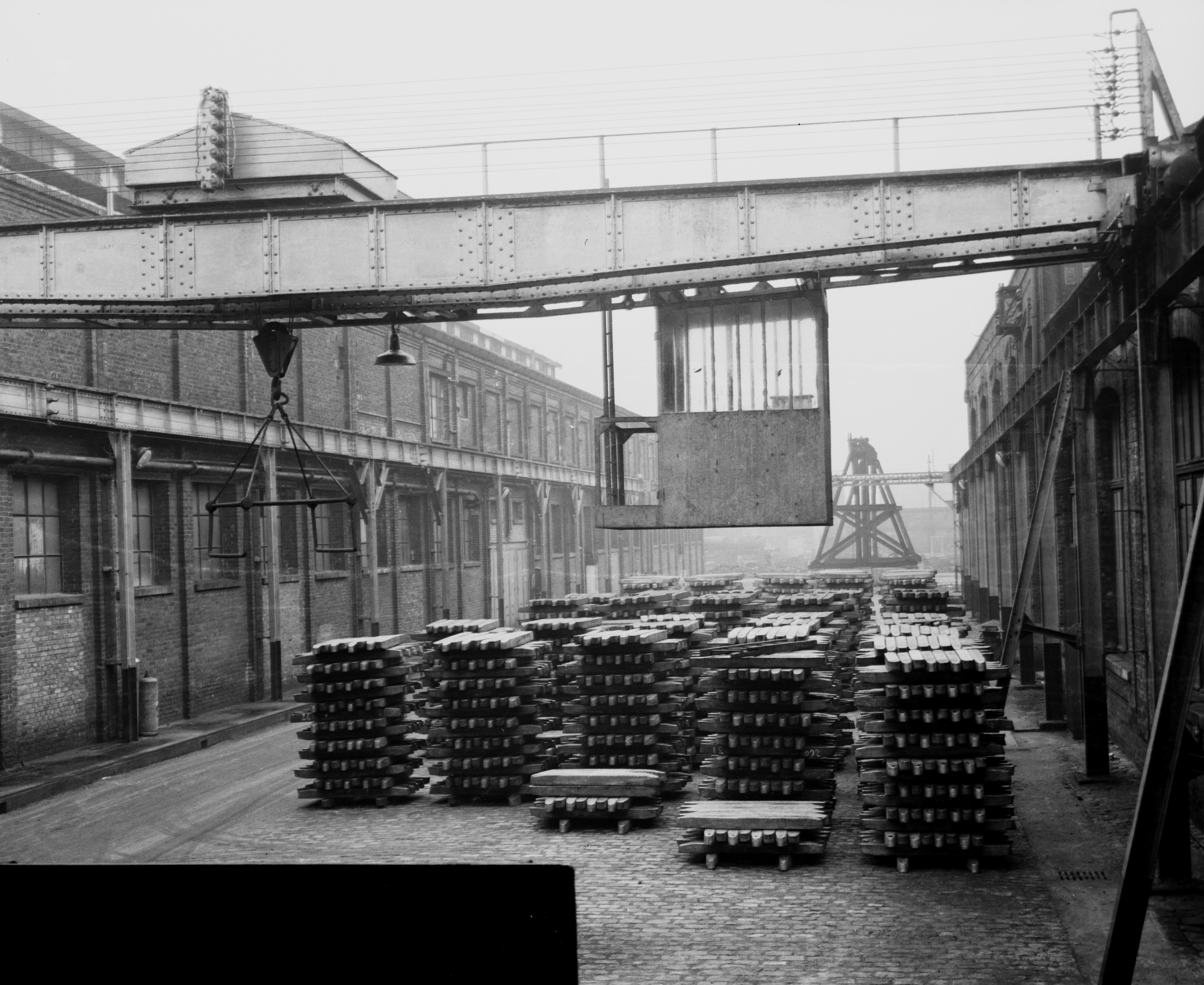 Trefileries et Laminoirs du Havre c. 1950